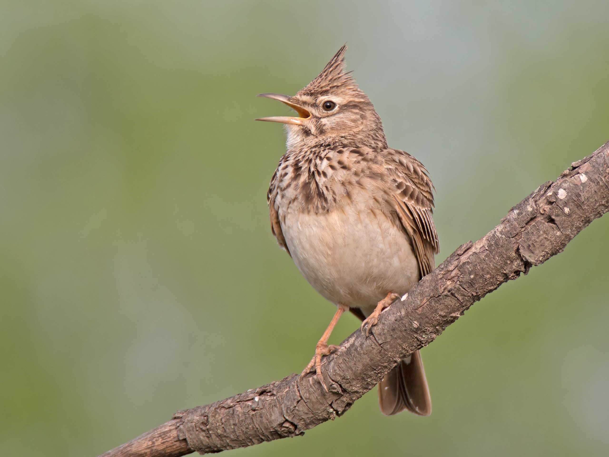 Crested lark singing in Israel